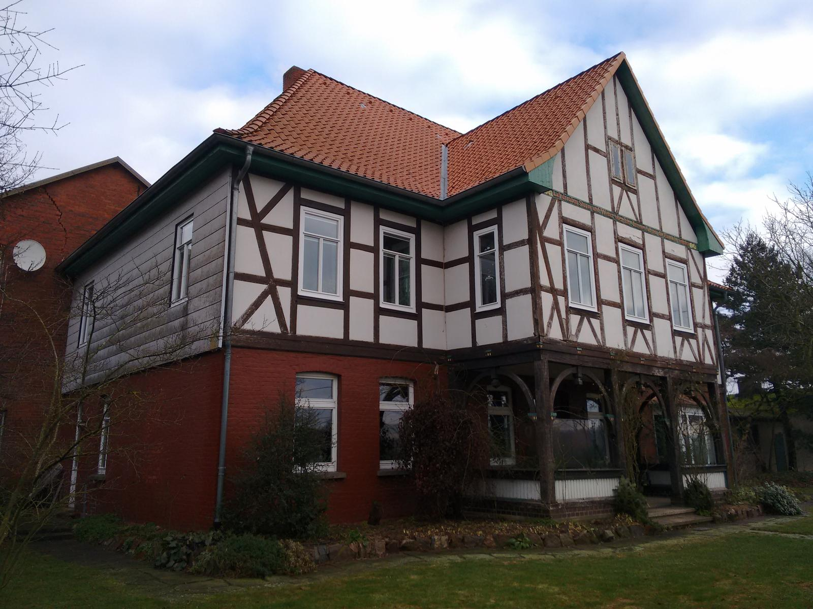 Timber framed house in Wrestedt-Drohe in Lower Saxony, Germany